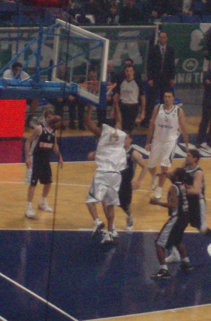 Kennedy Winston PAO-PAOK